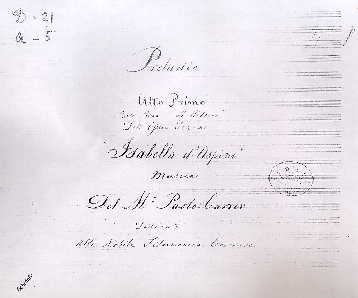 Front page of manuscript of Karrer's opera Isabella d’Aspeno